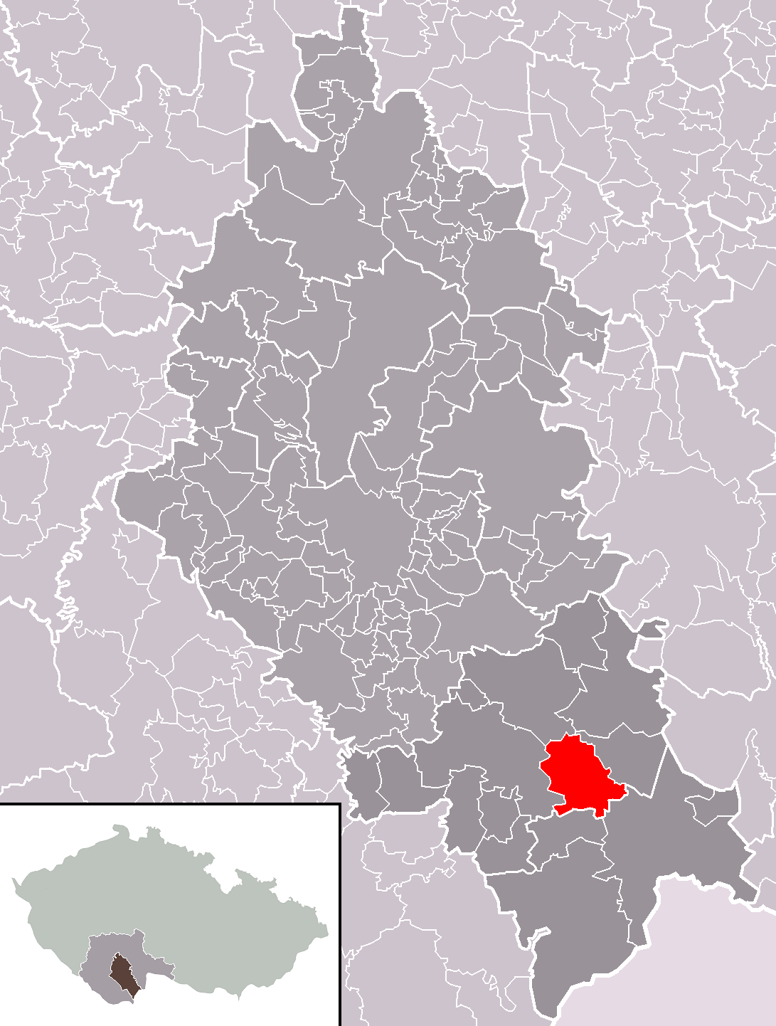 Location of Olešnice municipality within České Budějovice District and administrative area of Trhové Sviny as a Municipality with Extended Competence.